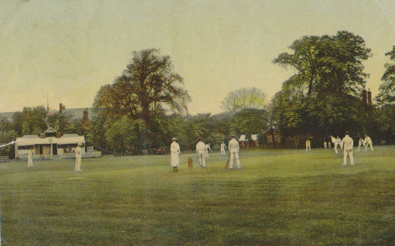 postcard entitled "The Cricket Ground, Harborne", used in the post with a halfpenny stamp of King Edward VII and postmarked "Harborne SP 14 06" (for September 1906)